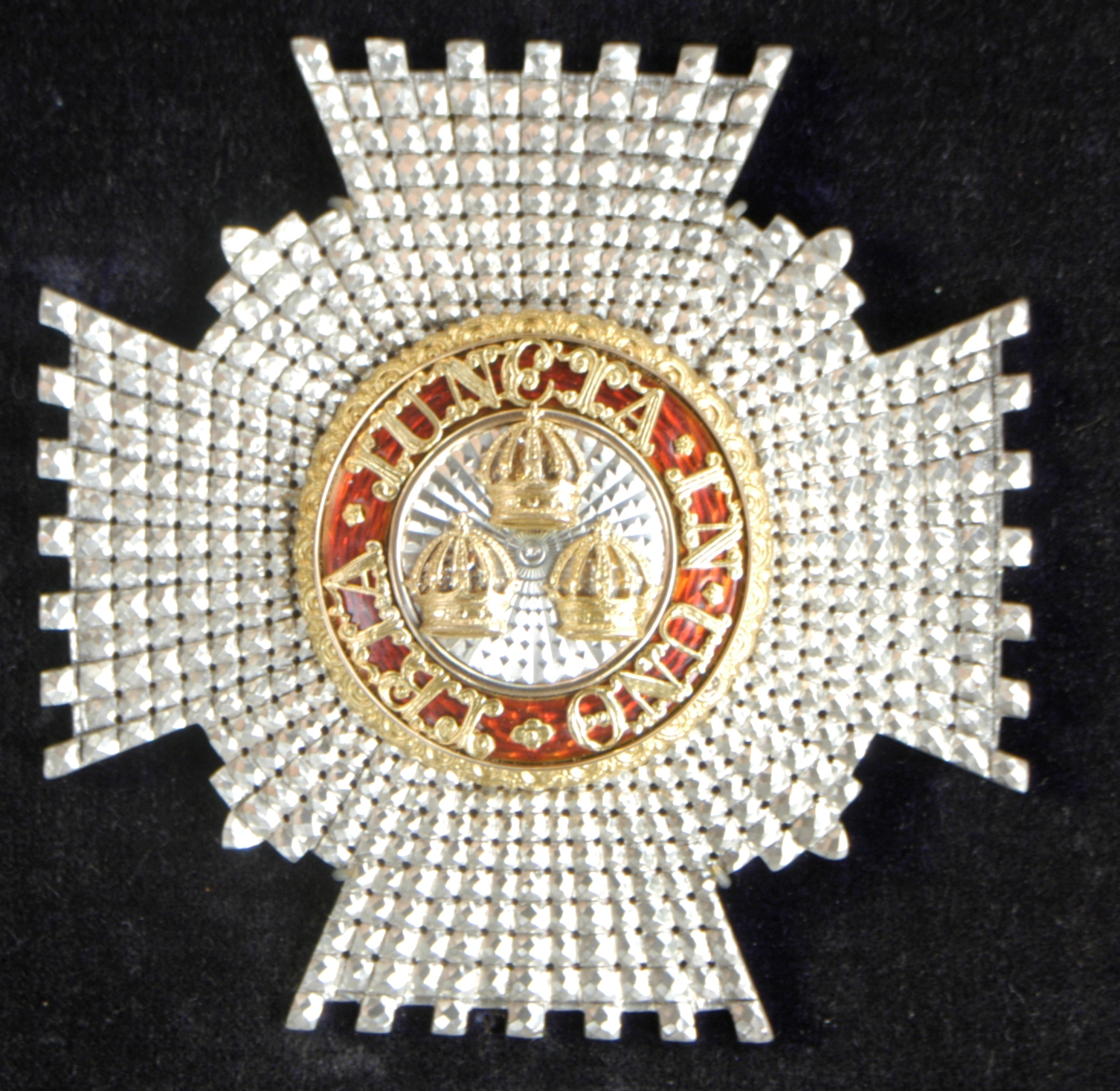 Photo (by me, R. de SalisRodolph (talk) 11:44, 7 August 2014 (UTC)) of the Knight Commander of the Bath star, awarded to Cecil Fane de Salis (1859-1948) in 1935.